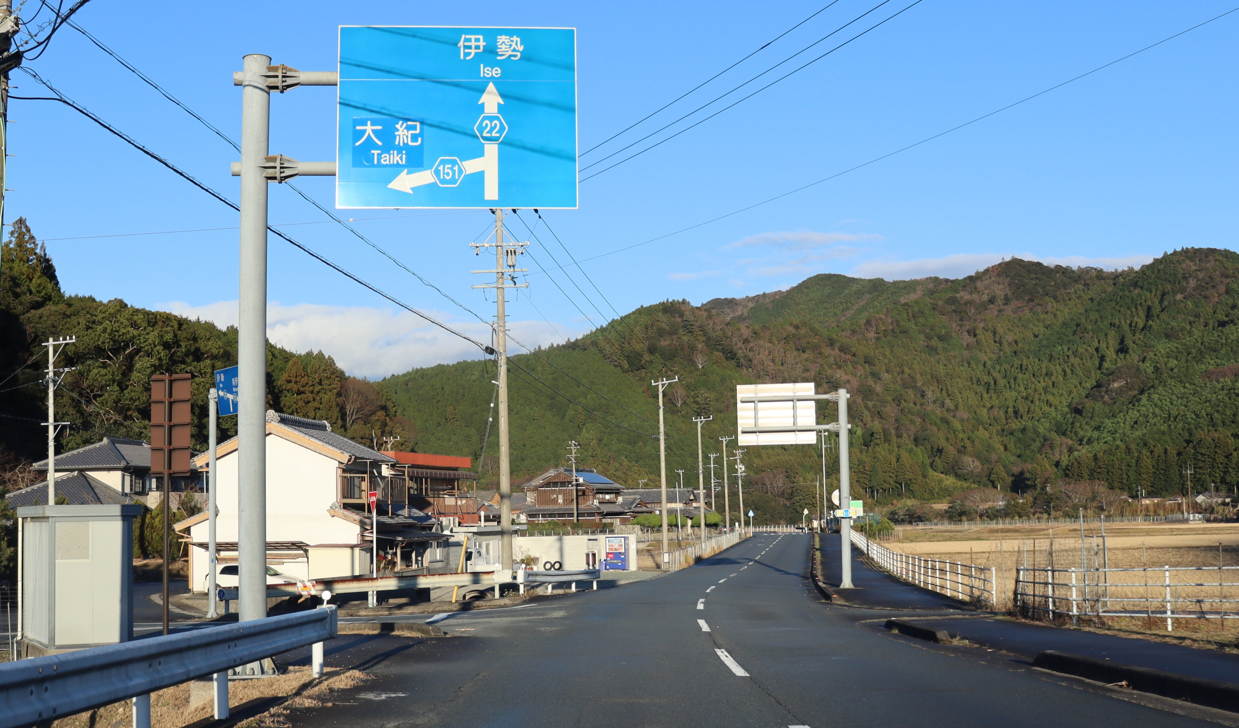 Mie Prefectural Road Route 22 and Mie Prefectural Road Route 151 in Minaminakamura, Watarai, Mie Prefecture, Japan.